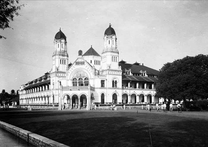 The head office of the Netherlands Indies Railway Co. (NIS) at Semarang, completed July 1907